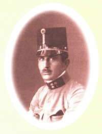 Rudolf Holeka, the first Czech military pilot and brigadier general of the Czechoslovak air force. Photo taken ca. 1910-1918.